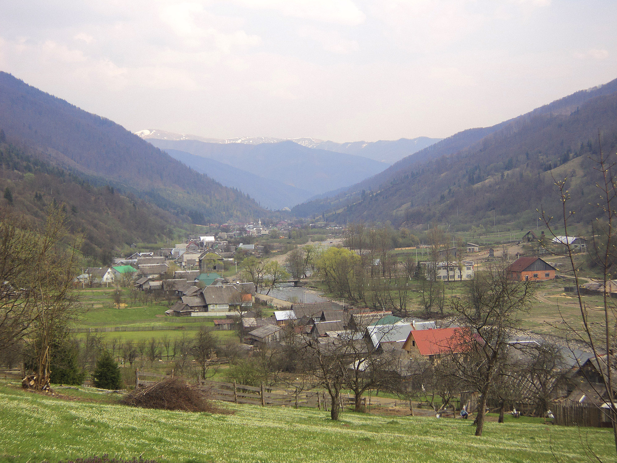 aegfseg